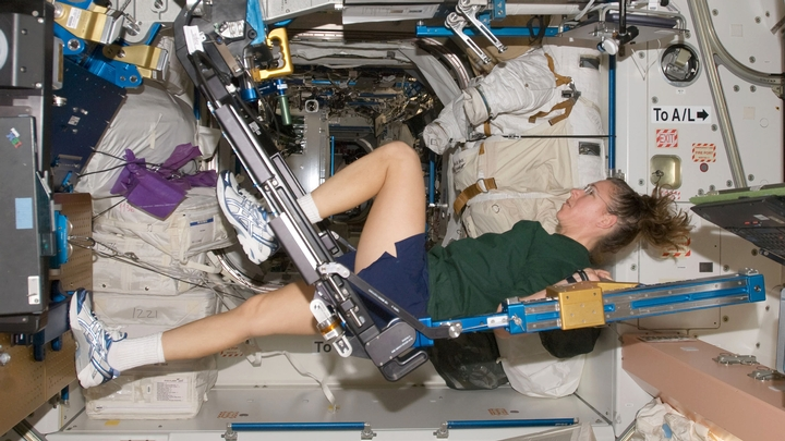 Astronaut Sandra Magnus (Expedition 18) exercises aboard the ISS